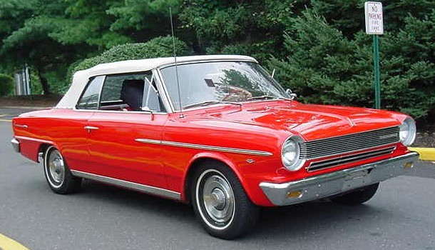 1964 Rambler American 440 convertible by American Motors Corporation (AMC). Right front side view. Picture taken at the AMCRC car show that was held in Somerset, New Jersey held in Somerset, New Jersey, during August 8 and 9, 2003.